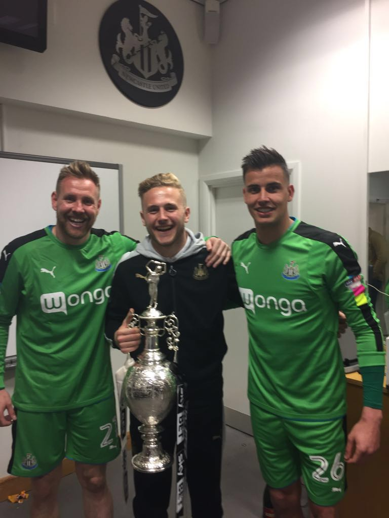 Paul Woolston lifts the Championship Trophy with fellow Newcastle United Goalkeepers Rob Elliot and Karl Darlow